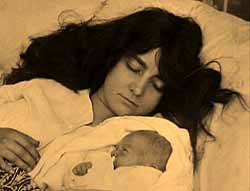 Still photograph of Clara Williams in the 1915 film The Italian